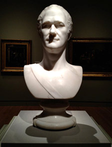 Marble bust of Alexander Hamilton by Giuseppe Ceracchi.